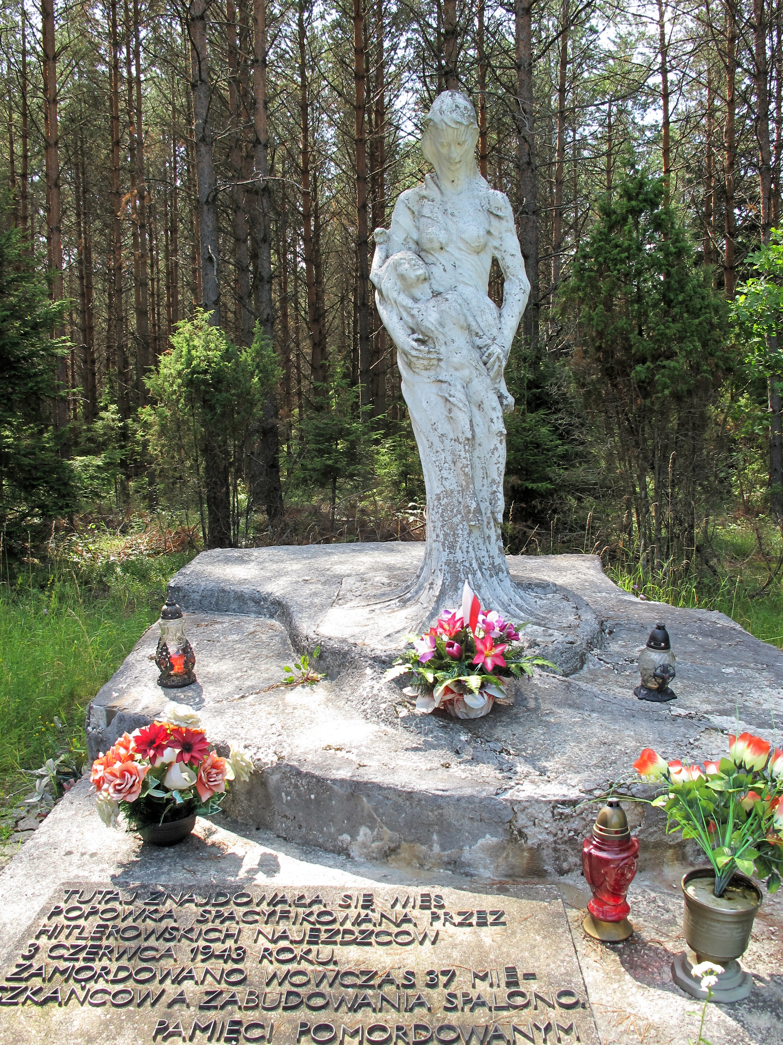 Monument at plece where once was the Popówka village, gmina Gródek, podlaskie, Poland